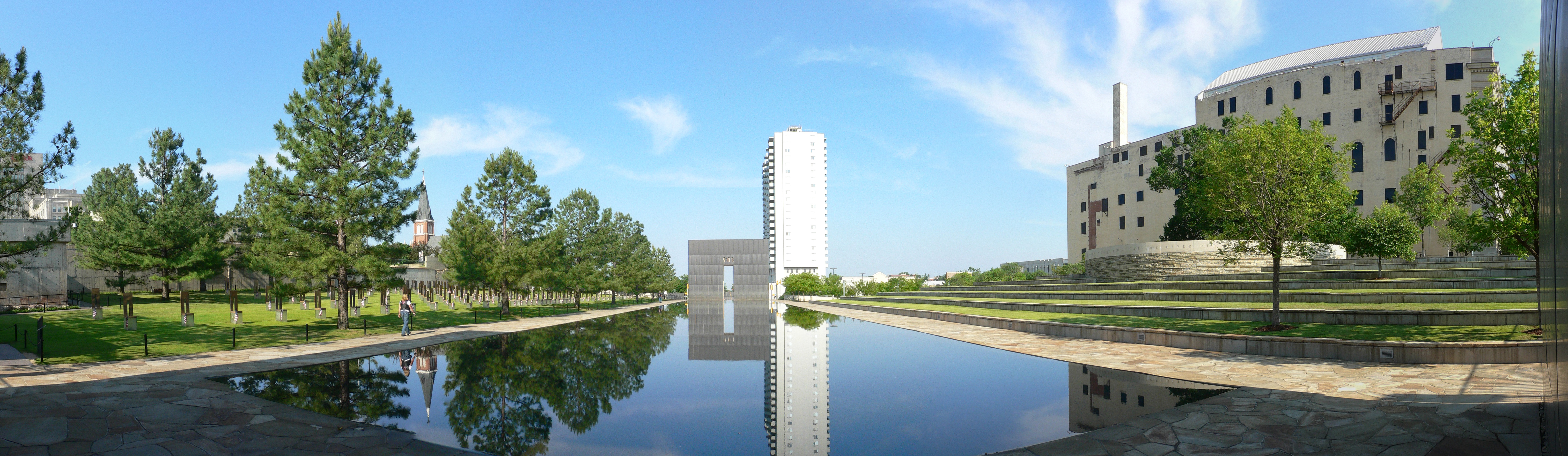 Panoramic picture of the Oklahoma City Memorial.Stitching errors, white building overexposed, posterisation (probably caused by JPEG compression), slight chromatic aberration, inappropriate file type